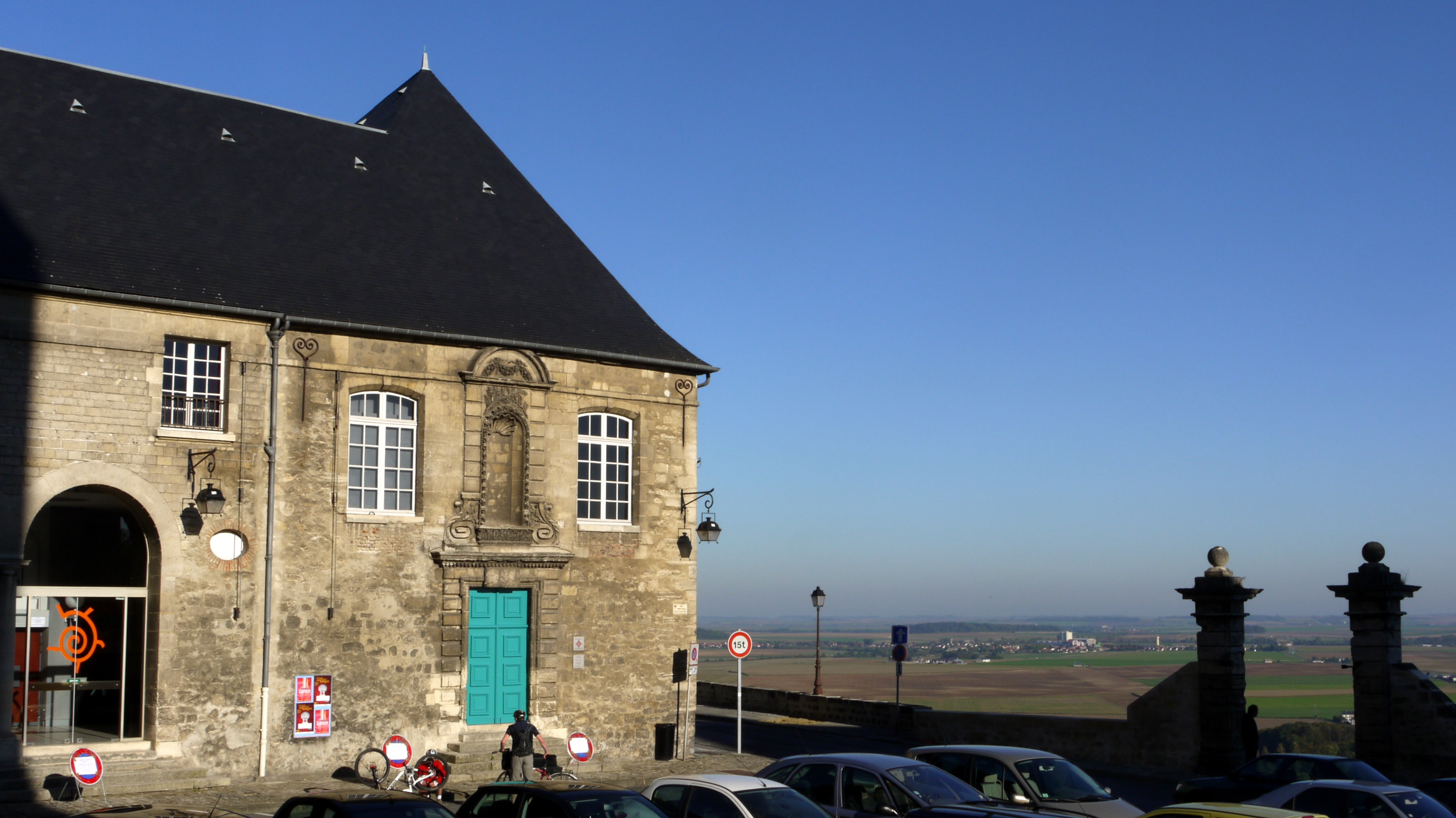 Square in the upper town of Laon near the cathedral, Aisne, France